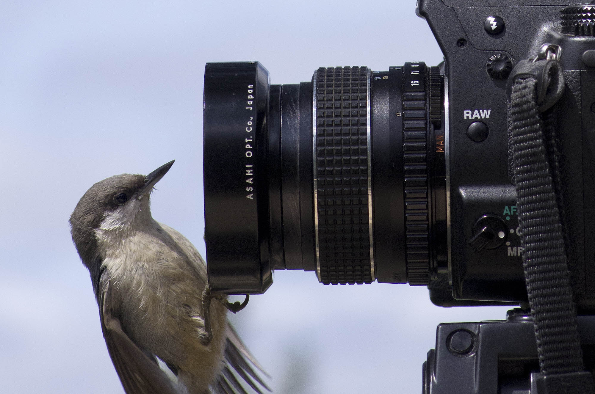 Pygmy Nuthatch Sitta pygmaea sitting on camera